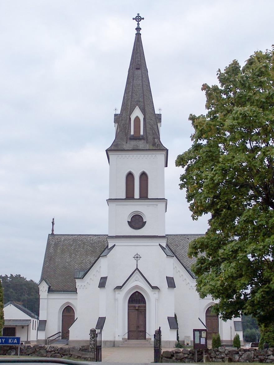 Rödeby church from south, Karlskrona, Sweden